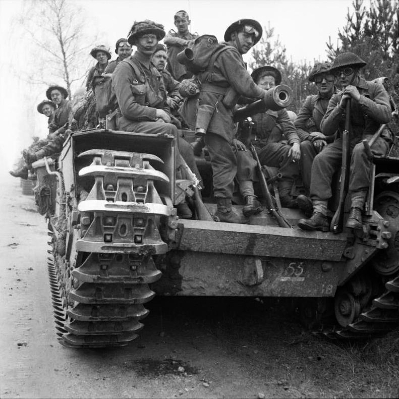 The British Army in North-west Europe 1944-45 Churchill tanks of the Scots Guards, 6th Guards Tank Brigade carrying men of the 10th Highland Light Infantry, 15th (Scottish) Division, during the advance to the River Elbe, 13 April 1945.